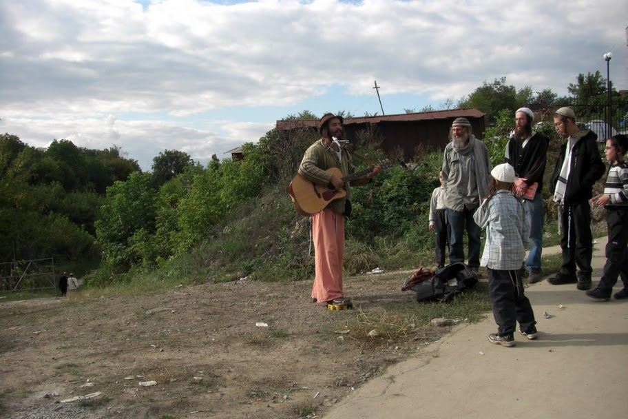 Ouman